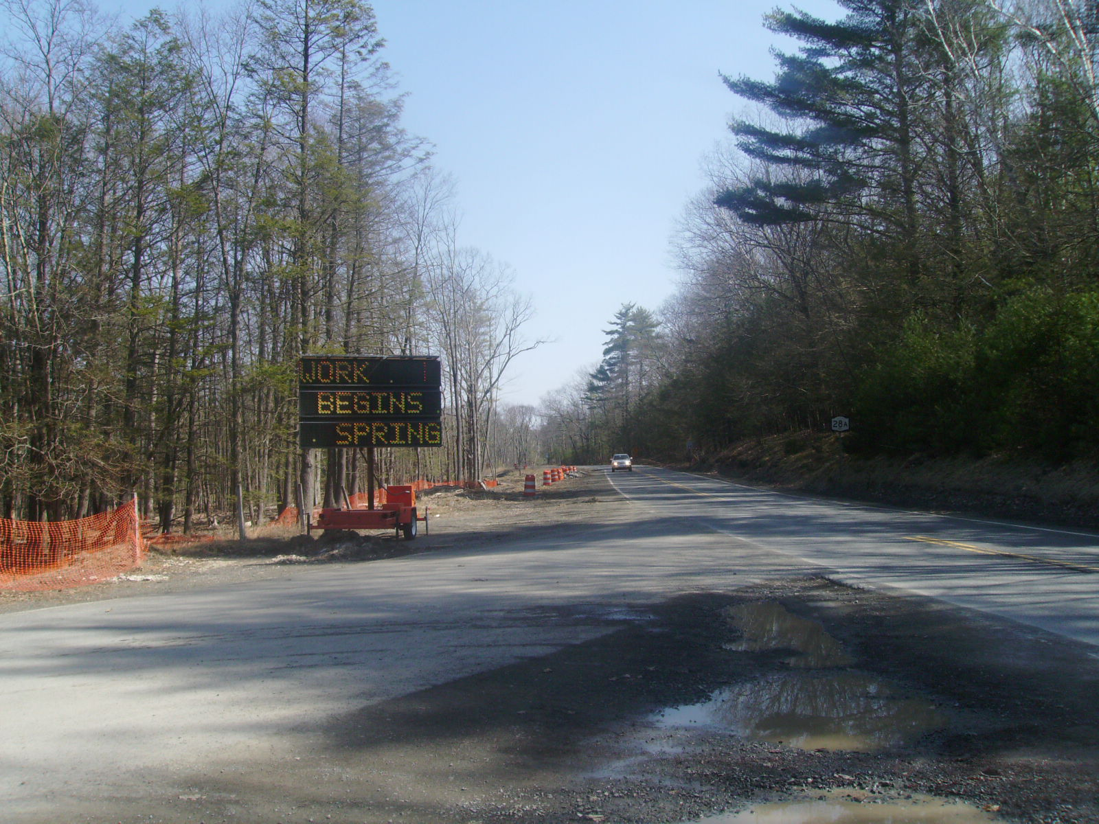 New York State Route 28A at the junction with Monument Road.